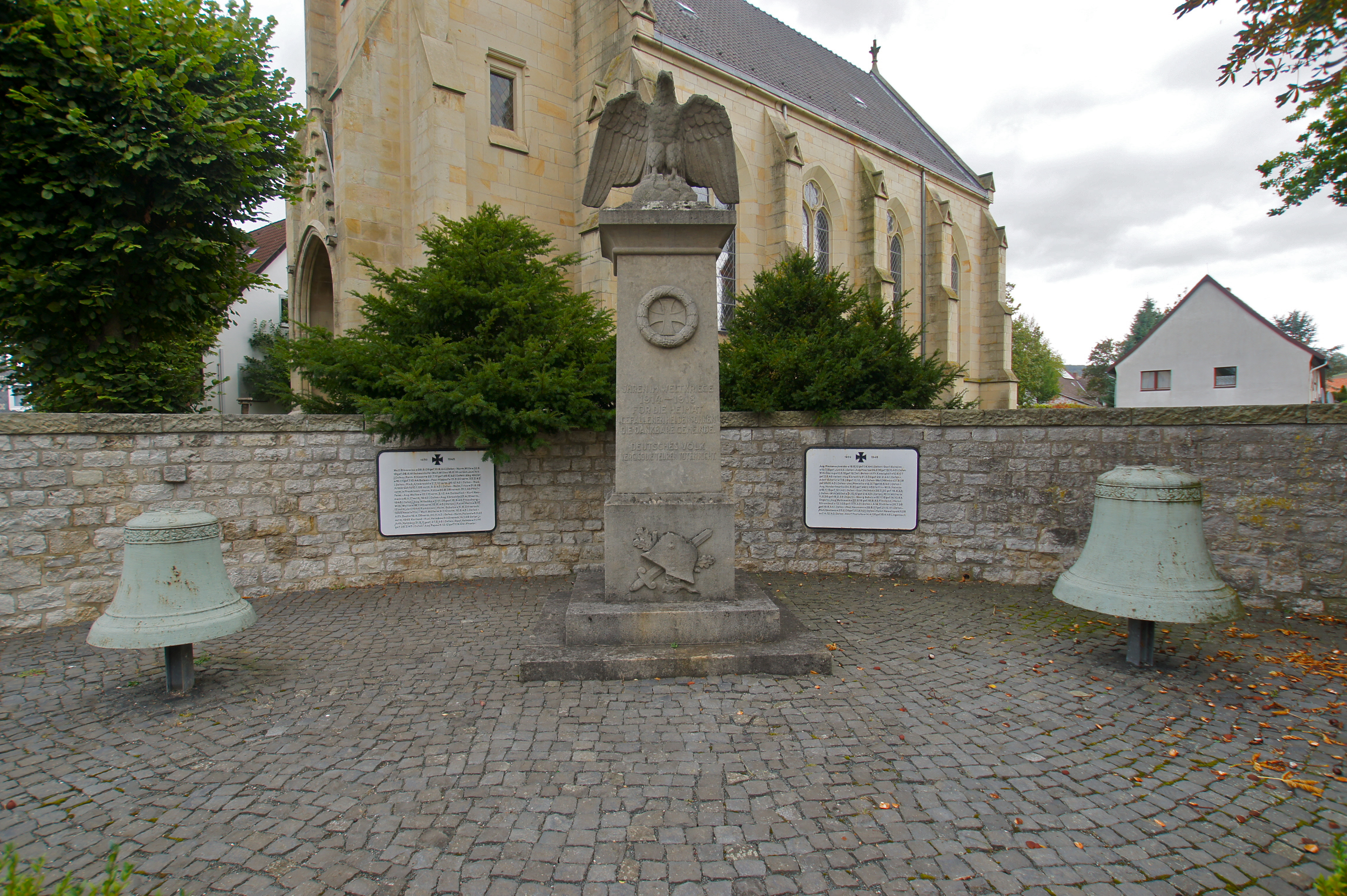 Einbeck (Stroit), Germany: War Memorial